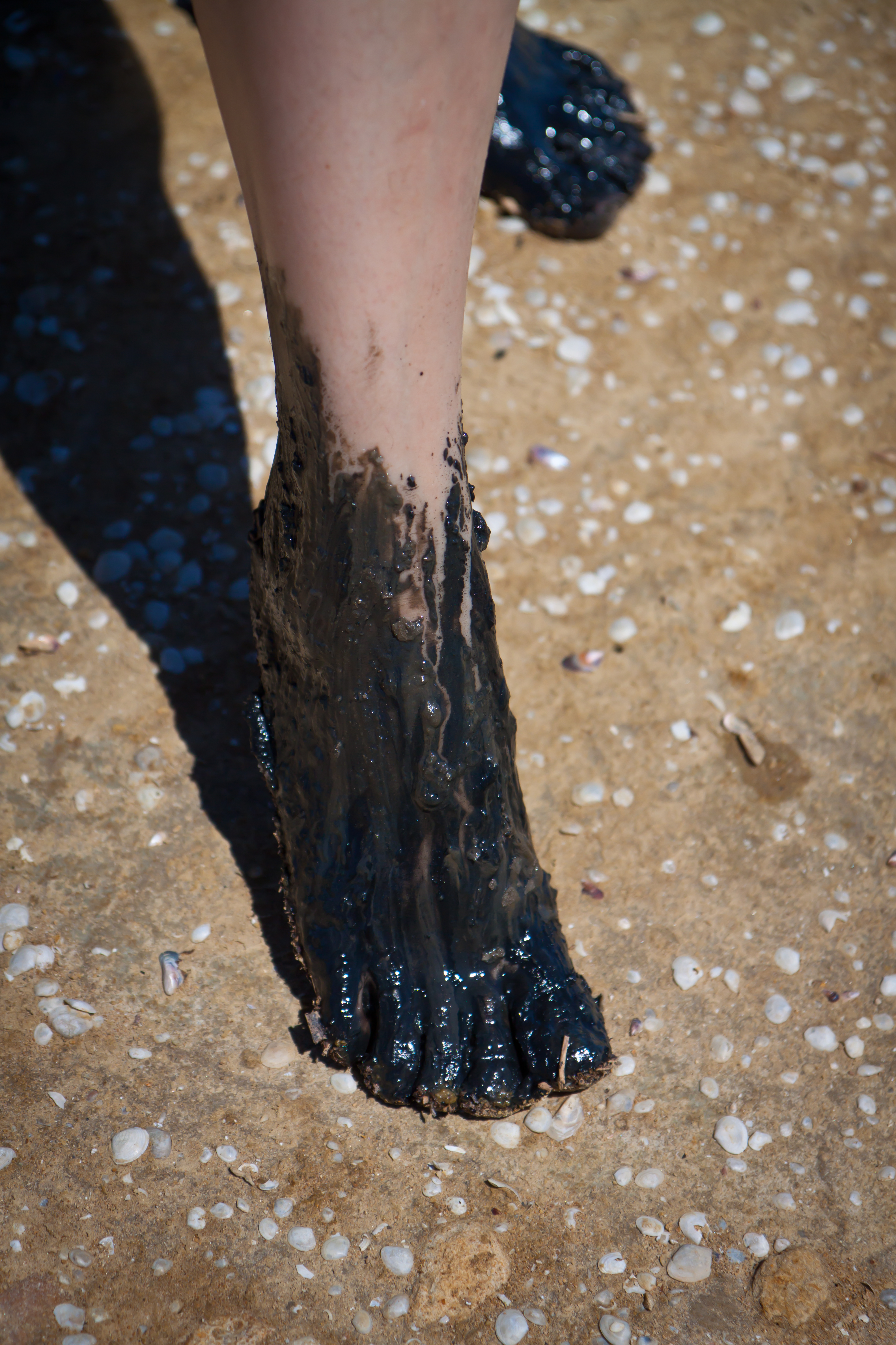 Еherapeutic Mud of Kuyalnic salt lake